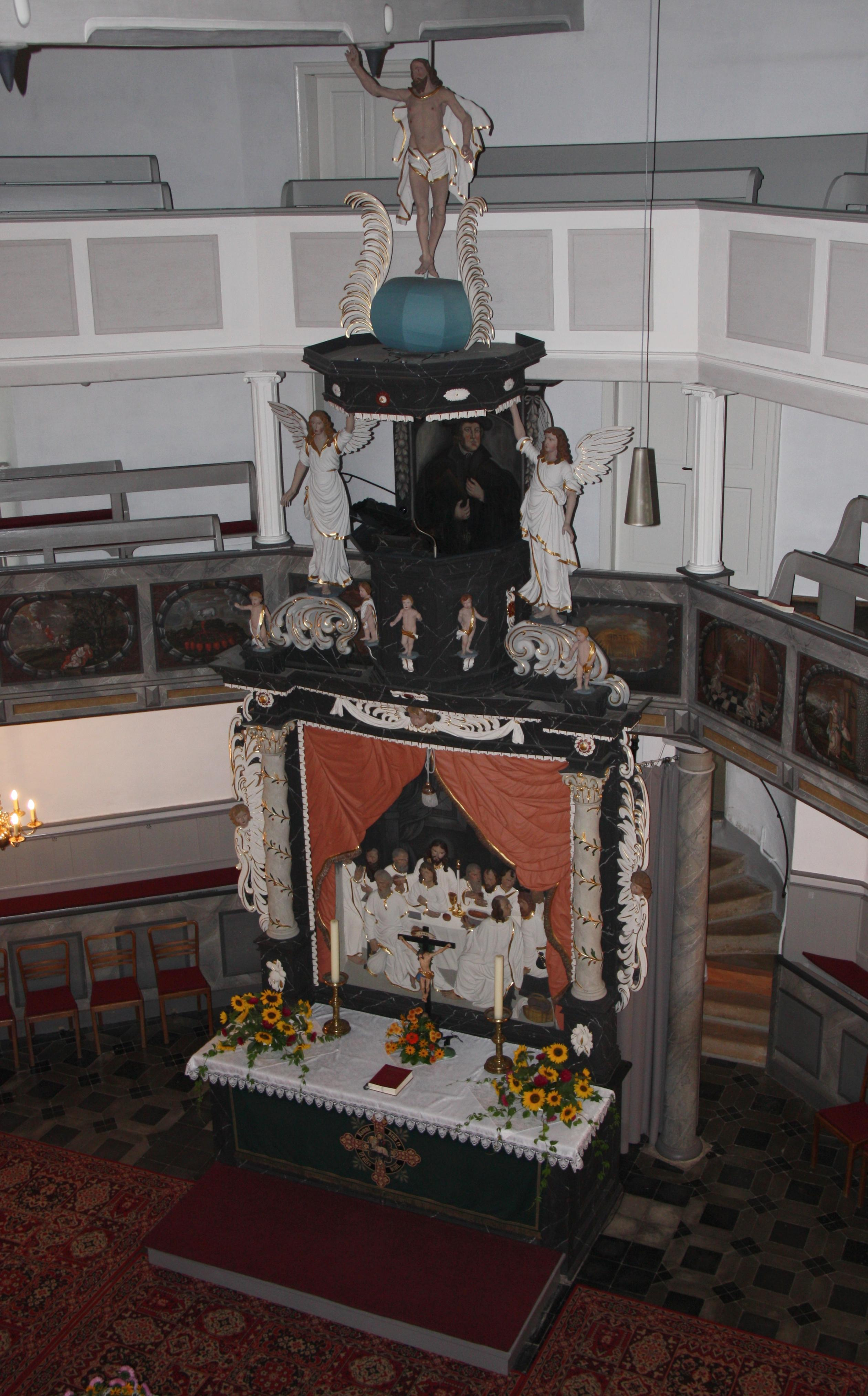 Bernsbach Church, Altar